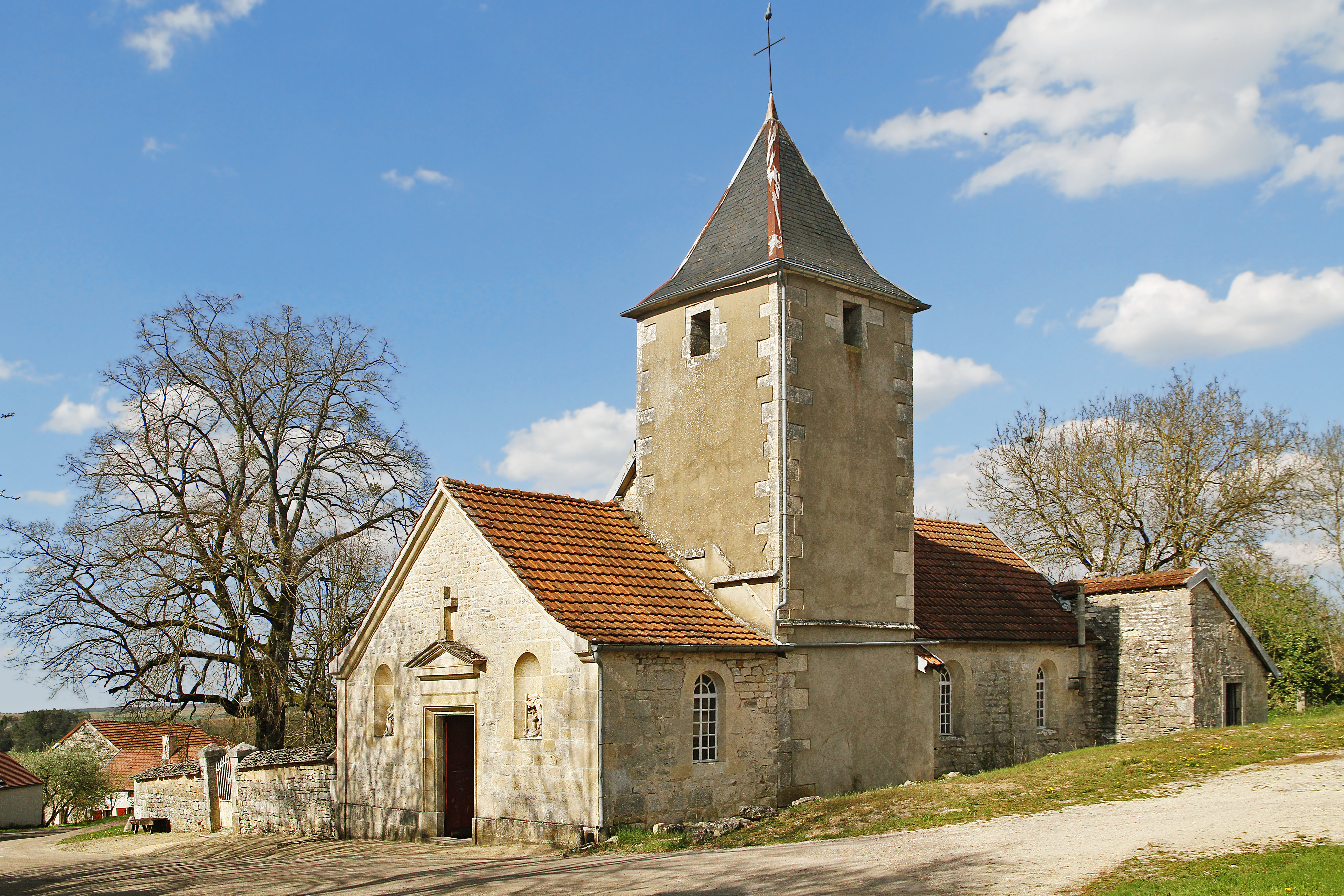 Church of Saint-Sulpice in Chaugey